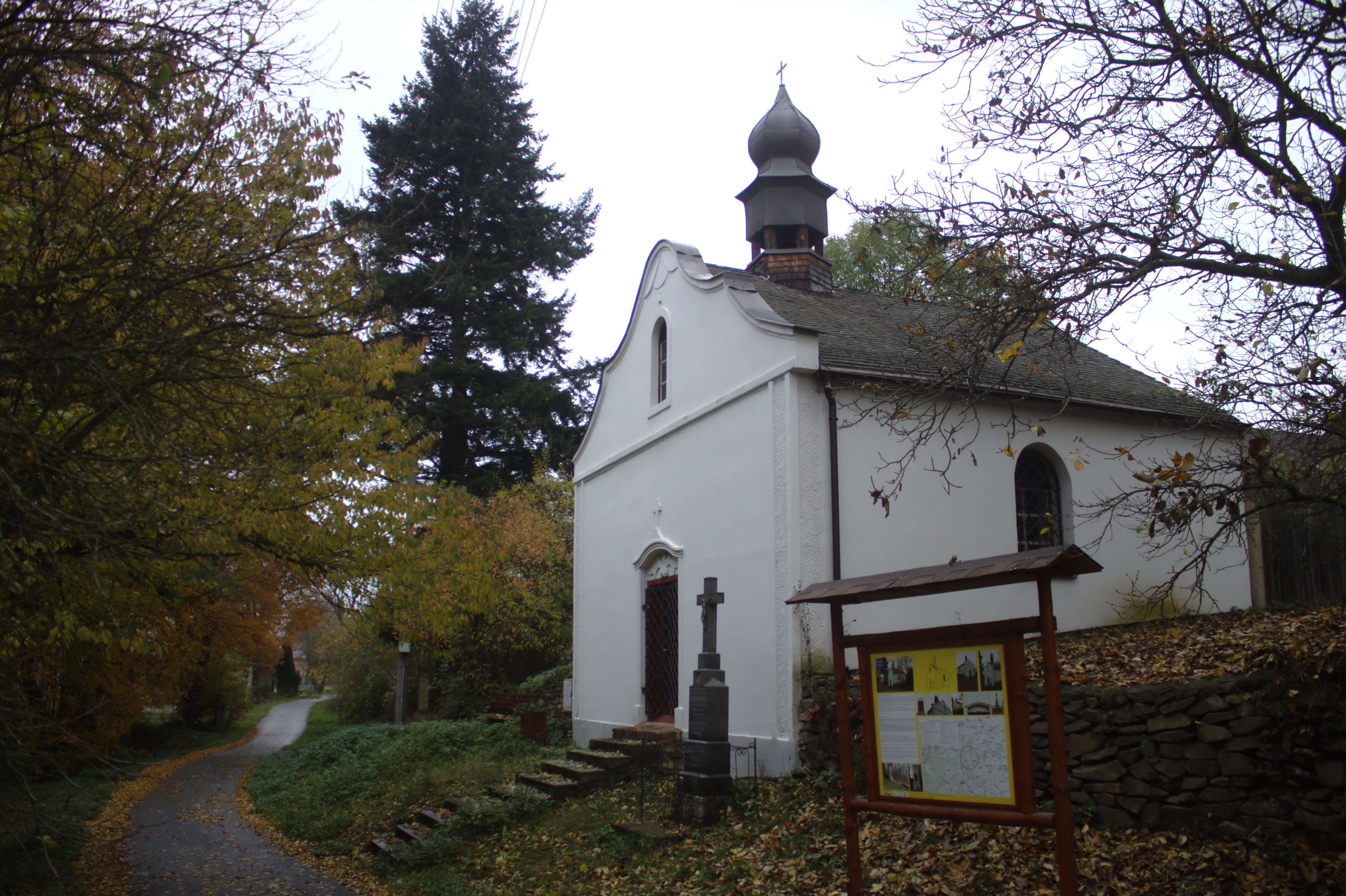 A chapel in Horní Povelice, Moravian-Silesian Region, CZ